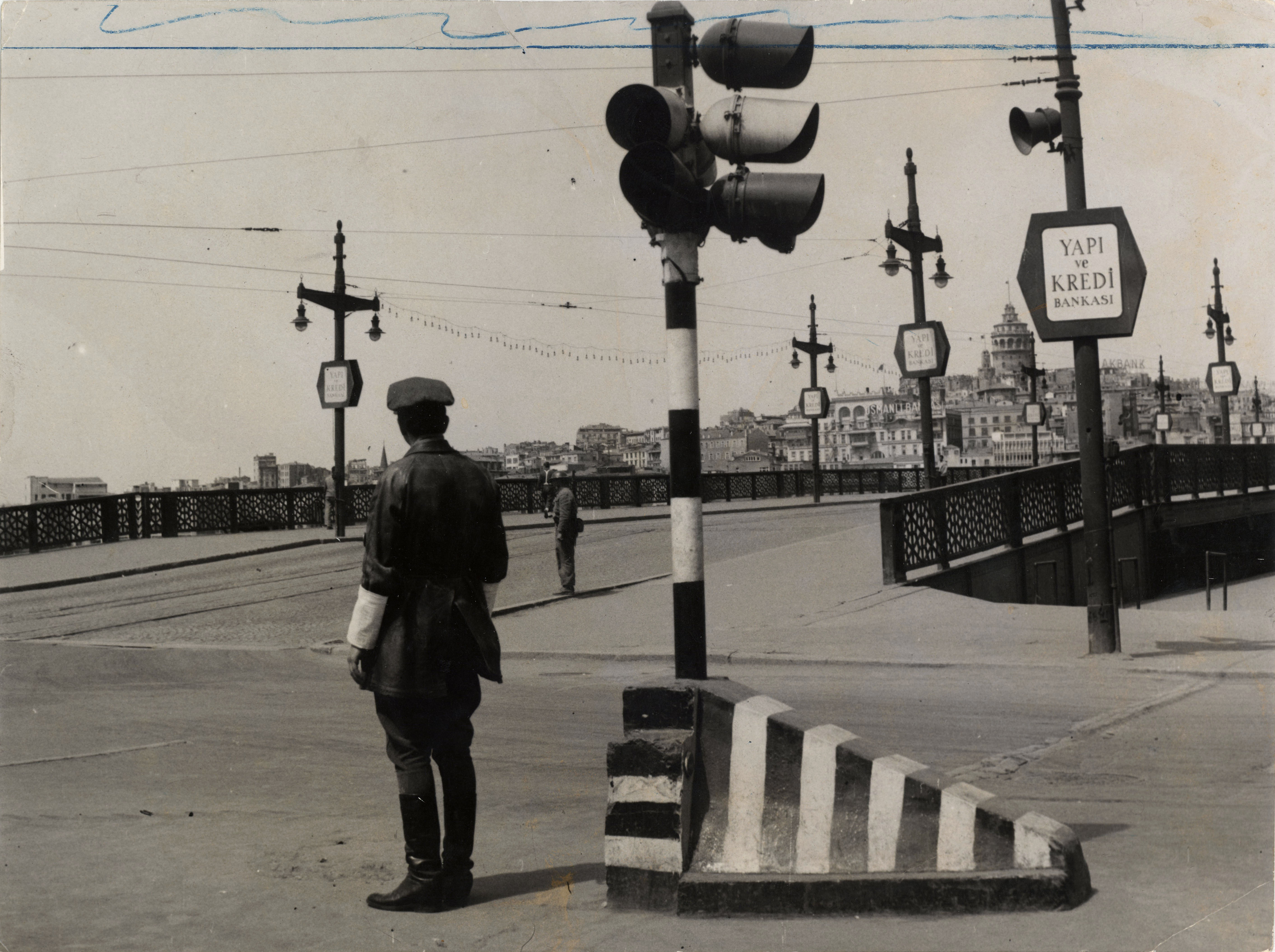 Sıkıyönetim ve sokağa çıkma yasağı Eminönü, İstanbul, 02.05.1960